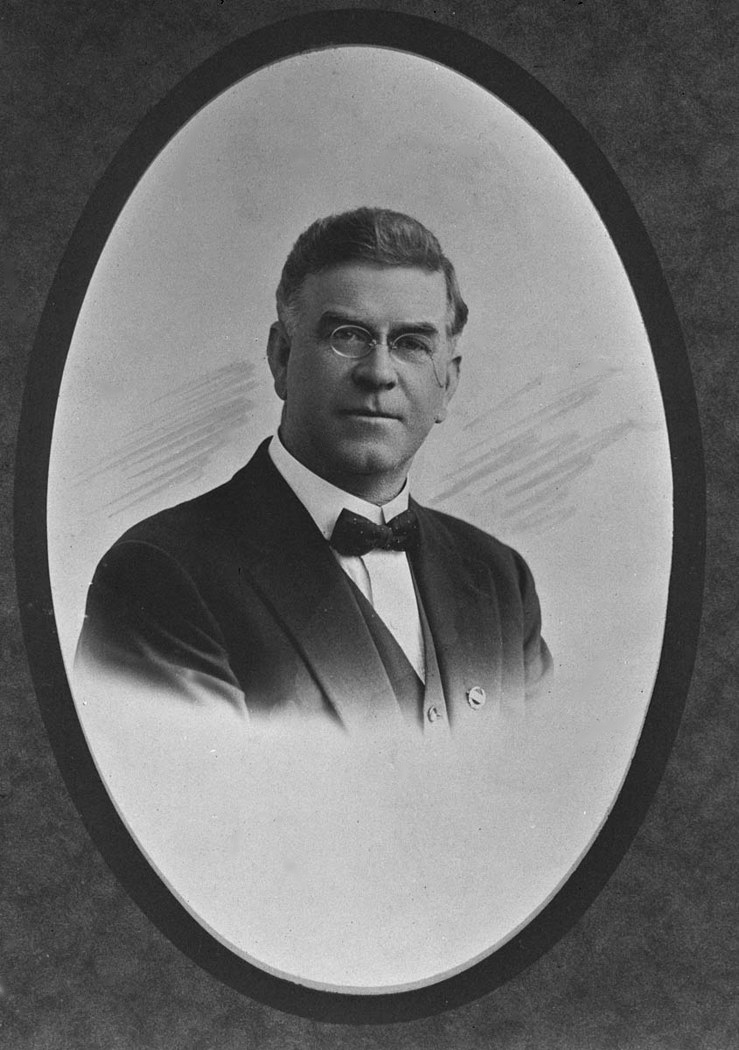 John Storey (1869–1921), 20th Premier of New South Wales, Australia